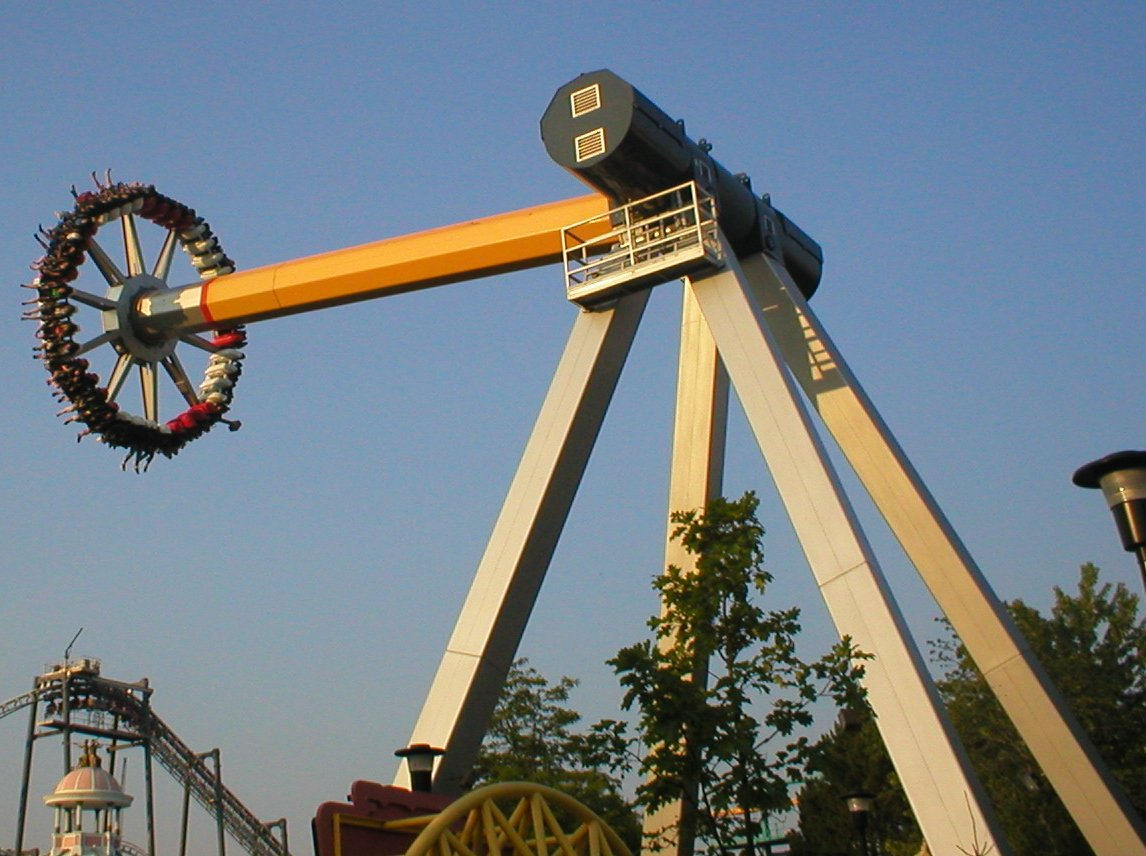 The Psyclone ride in the Canada's Wonderland amusement park ("Paramount Canada's Wonderland" at the time this photo was taken) in Vaughan, Ontario, Canada.